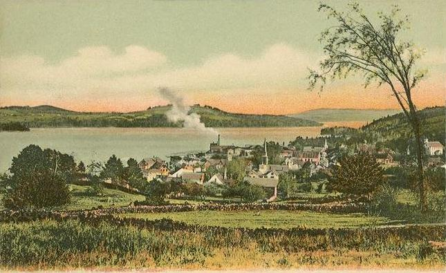 Bird's-eye View of Meredith, New Hampshire; from a 1905 postcard published by G. W. Morris, Portland, Maine.